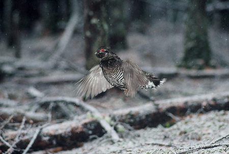 Straight displaying Jump